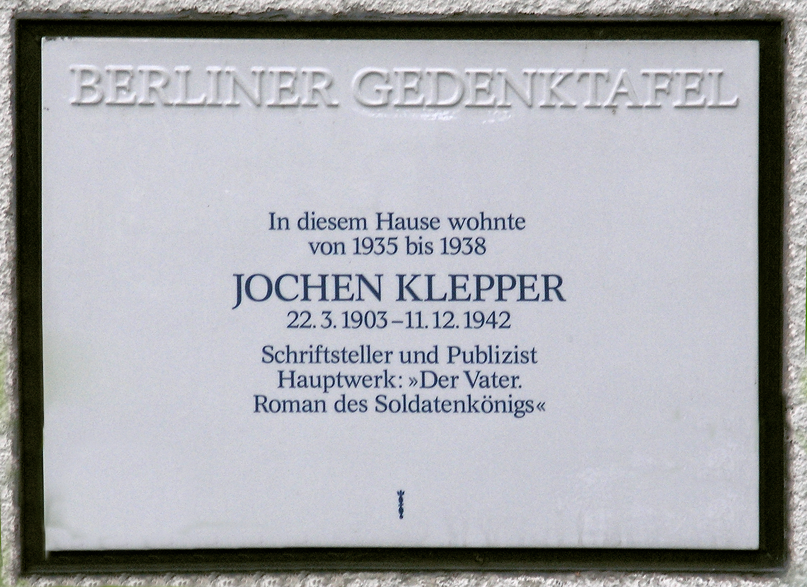 Berlin memorial plaque, Jochen Klepper, Oehlertring 7, Berlin-Steglitz, Germany Koordinate:52°27′10.7″N 13°21′14.9″E / 52.452972°N 13.354139°E